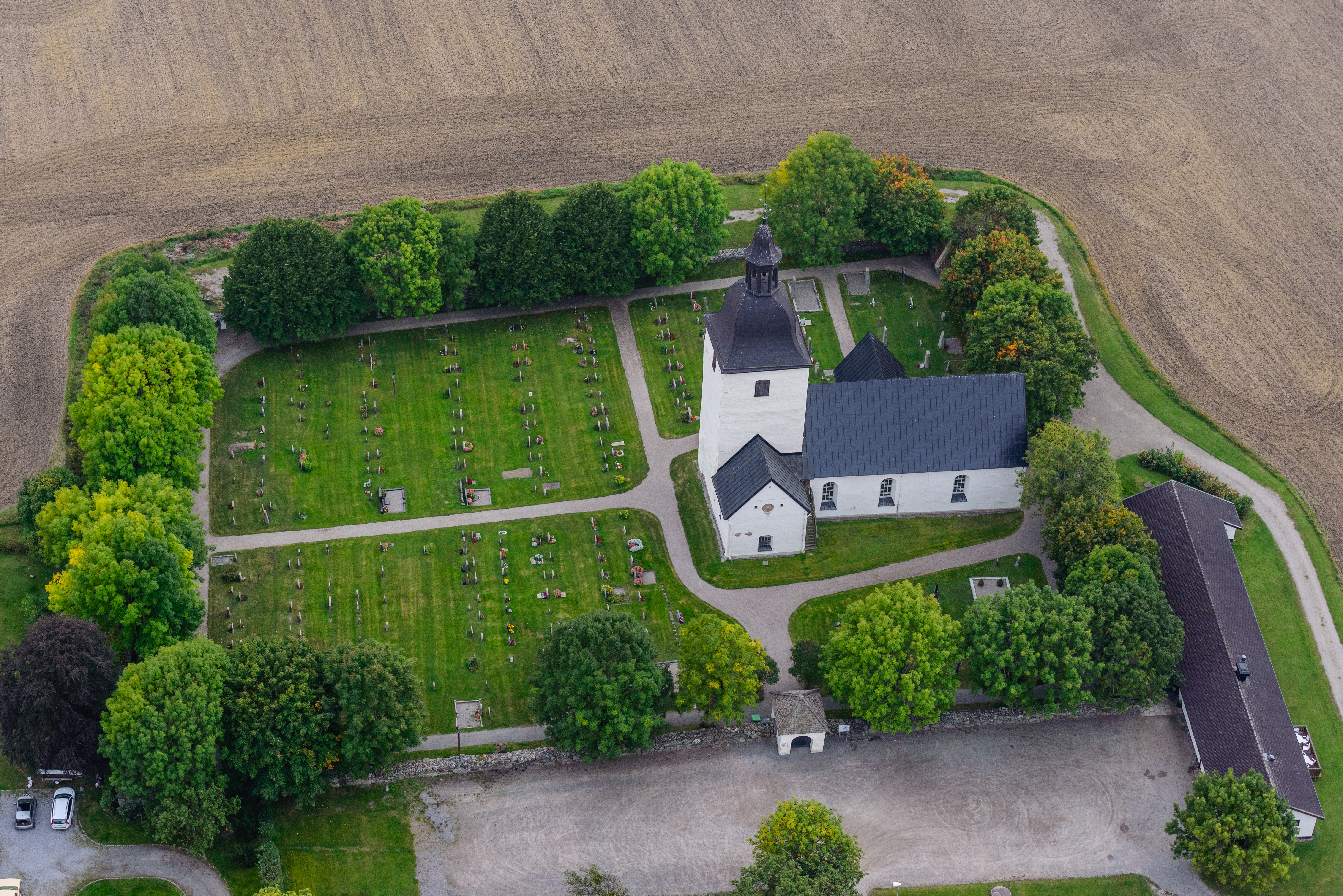 Färentuna kyrka (church).